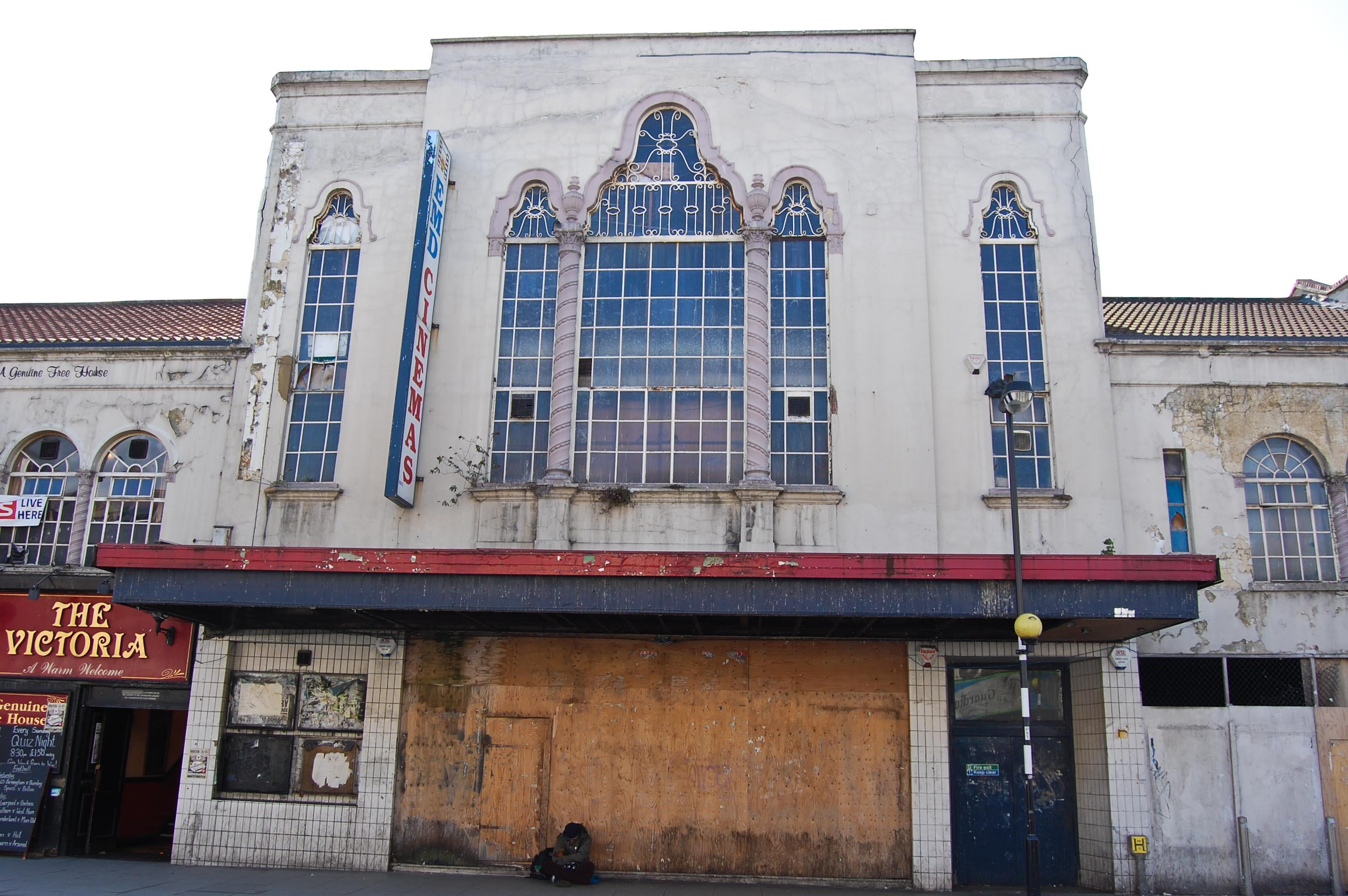 Former Granada Theatre, 186 Hoe Street, Walthamstow, London E17 4QS. Opened 1930, closed 2003. Sold to the Universal Church Kingdom of God (UCKG). Grade II*.